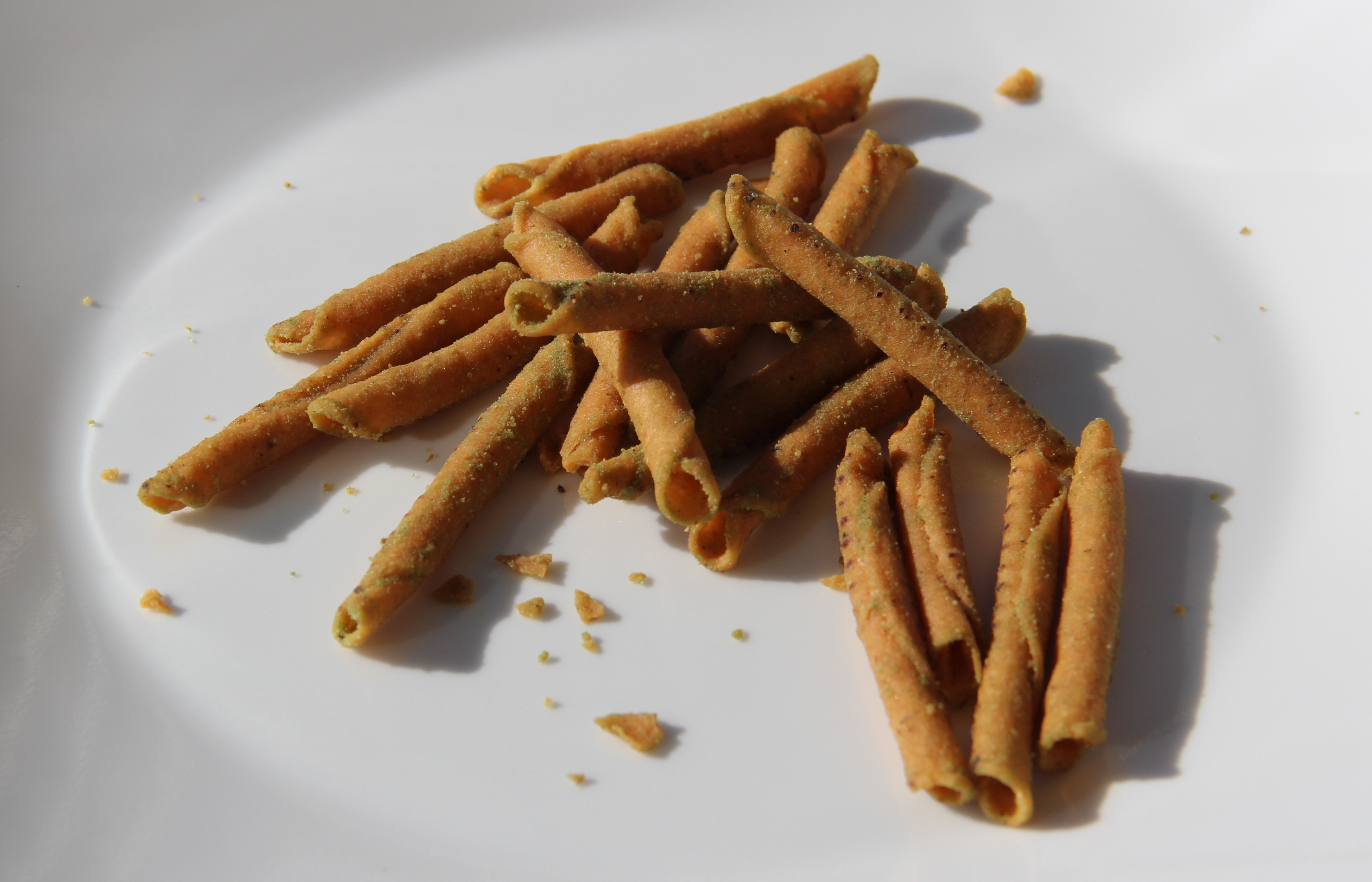 Barcel Guacamole Takis snacks